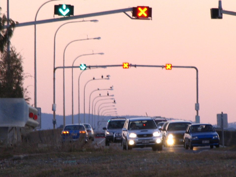 Evening peak traffic on the Houghton Highway, Queensland, Australia. Taken by self.